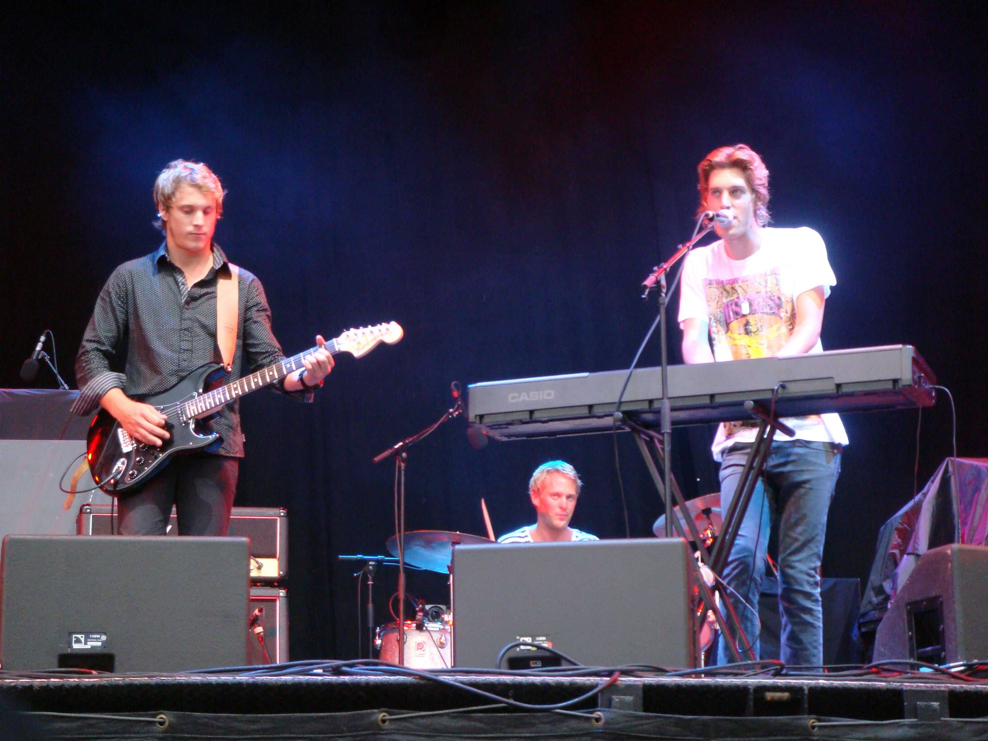 Swedish punk-rock band Vikunja live at Roxette's concert in Halmstad, 14 August, 2010